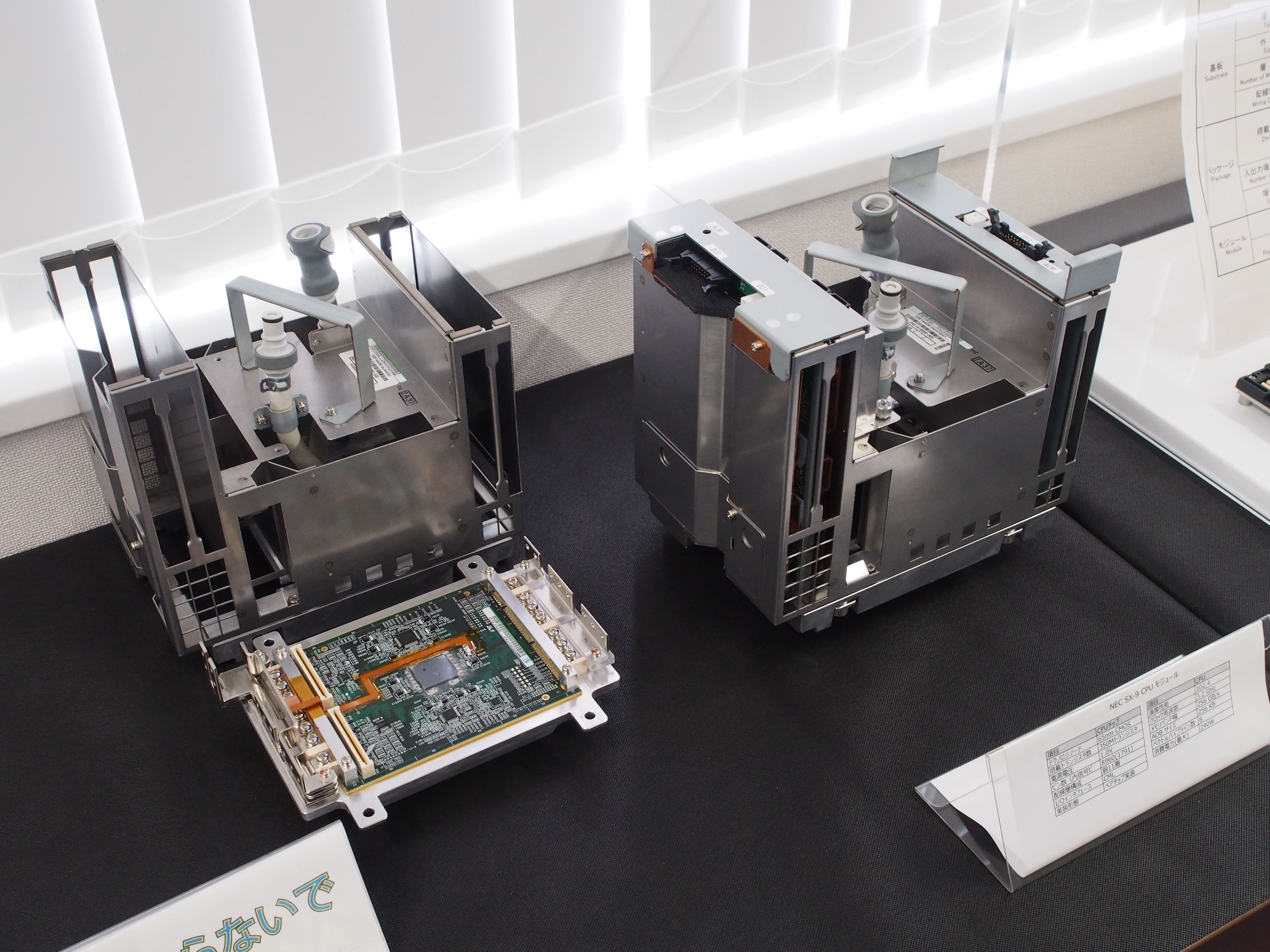 CPU modules of NEC SX-9 supercomputer. Photographed on the open house day of JAMSTEC Yokohama Institute for Earth Sciences.